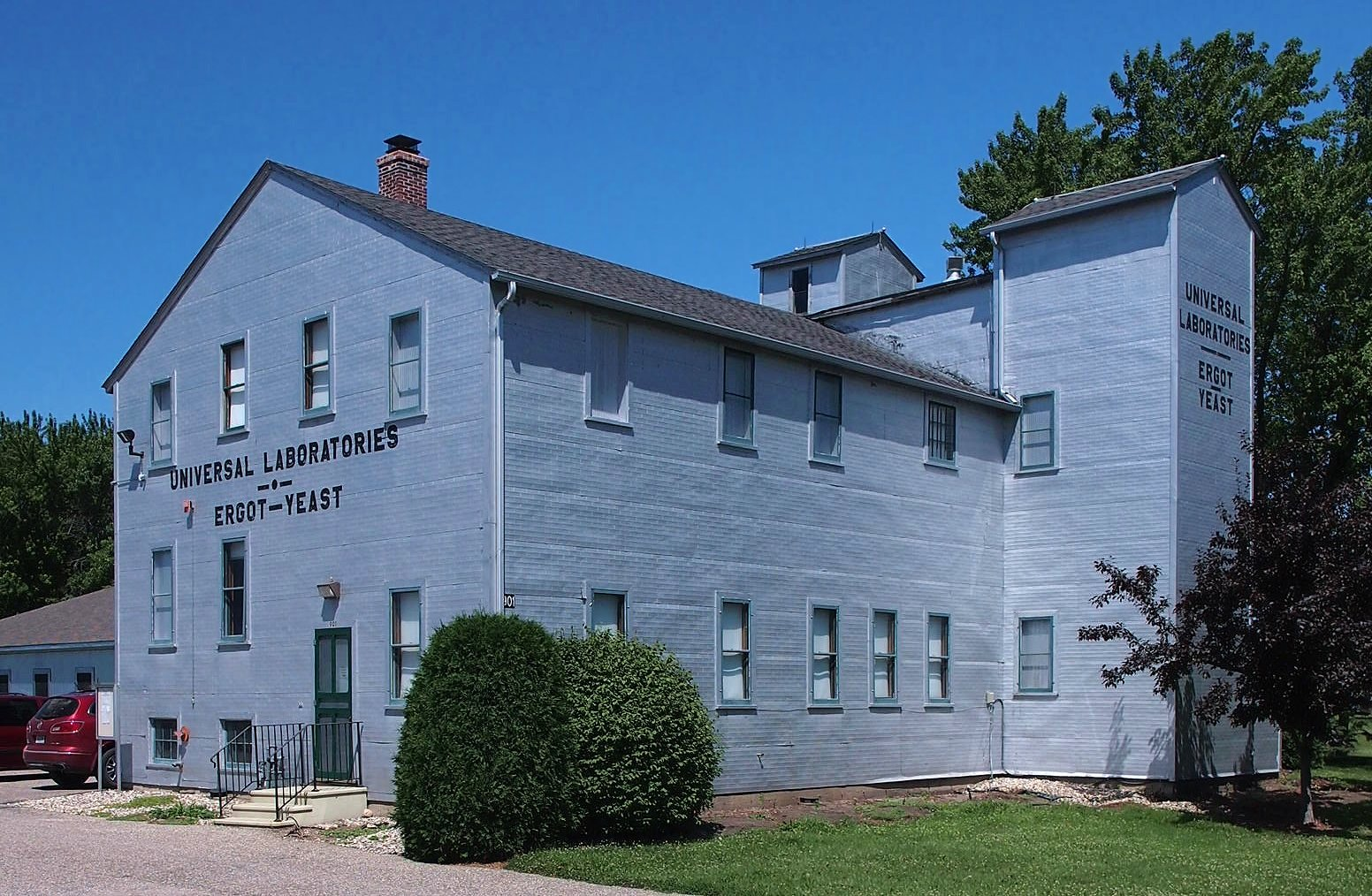 Universal Laboratories Building (now the Dassel History Center & Ergot Museum), 901 1st St N, Dassel, Minnesota, USA. Viewed from the southeast. The wing just visible on the left is a modern addition.